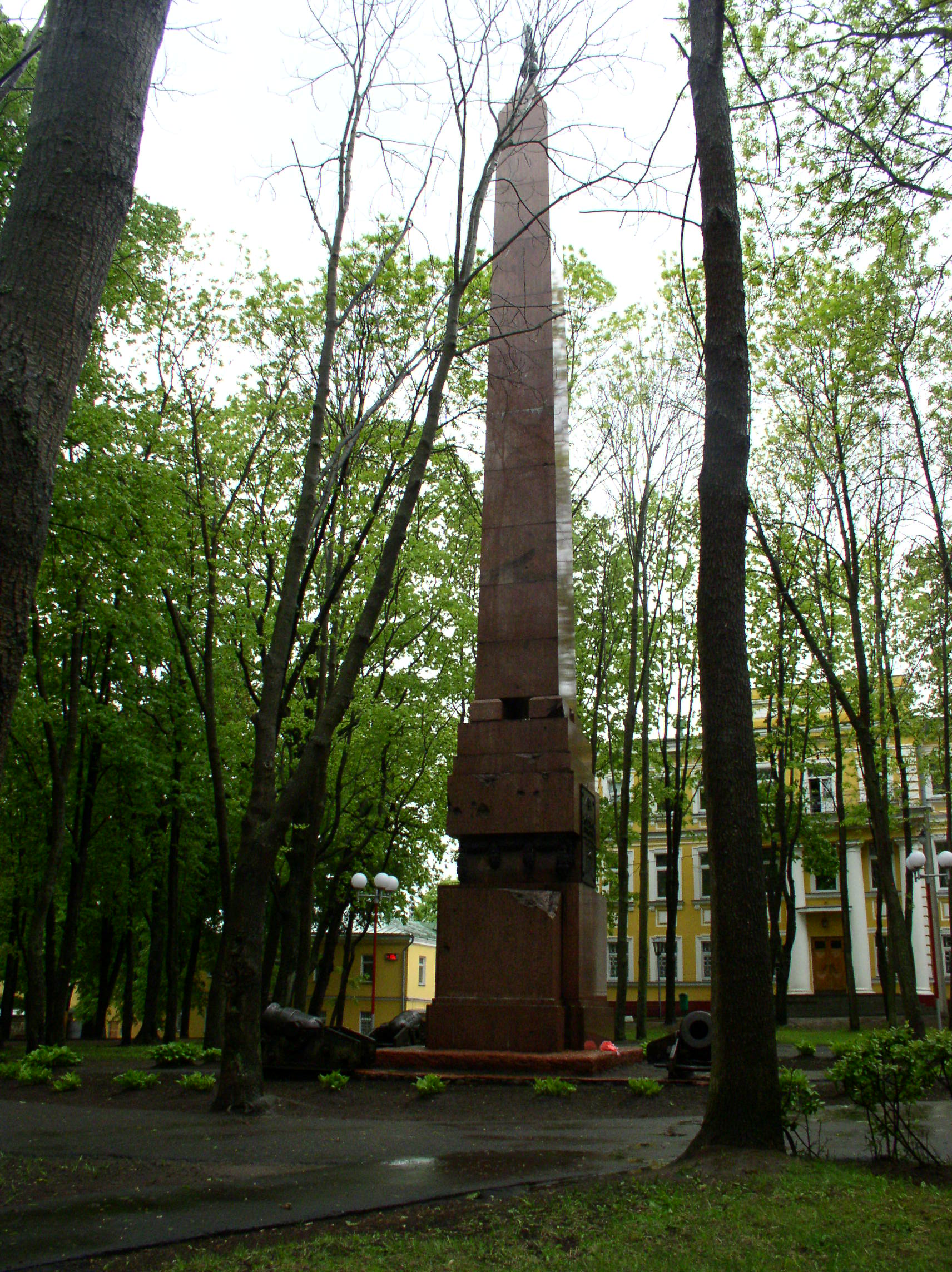 Monument to heroes of Patriotic War of 1812. Vitsebsk, Belarus.